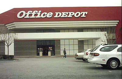 Office Depot store in Culver City.